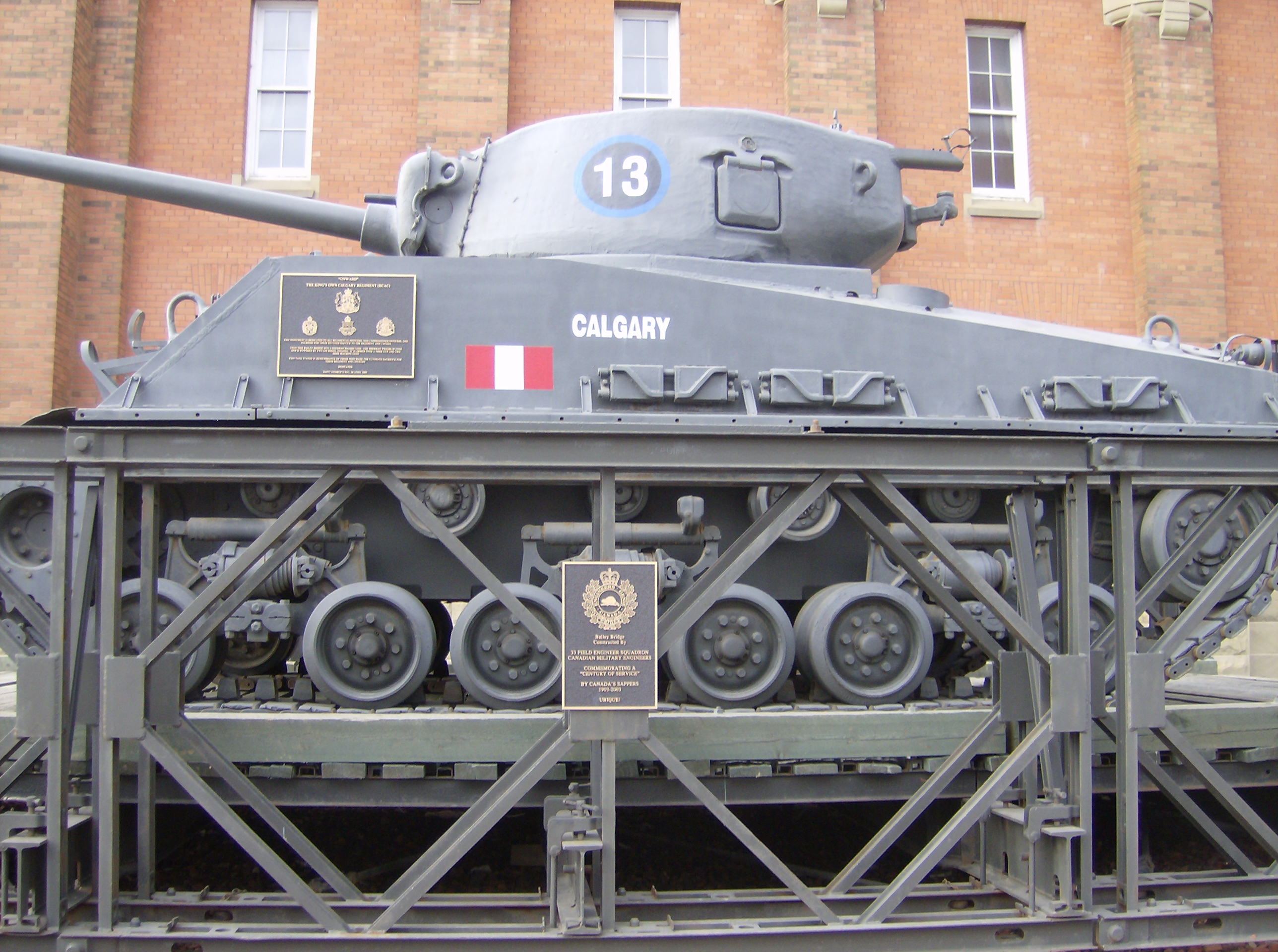 A momument titled "Battery Bridge" outside of the Mewata Armouries at 801 11 Street SW, Calgary, Alberta, Canada. This is fron of the East side of the building, running along 11 Street.